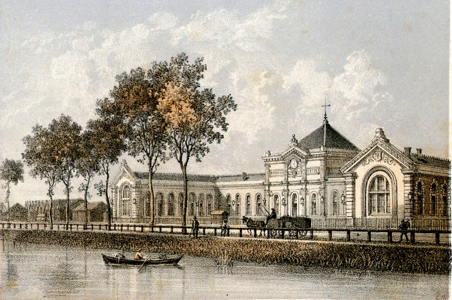 A lithograph of Matabuòu train station in Tolosa (Occitania)